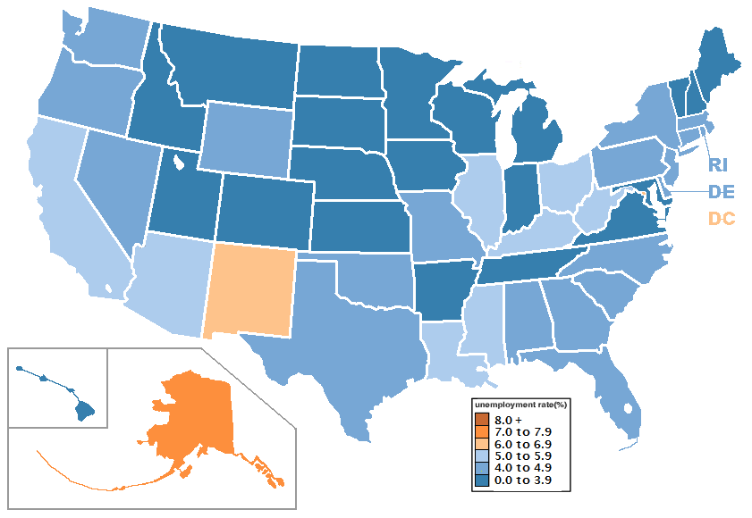 map for us unemployment numbers